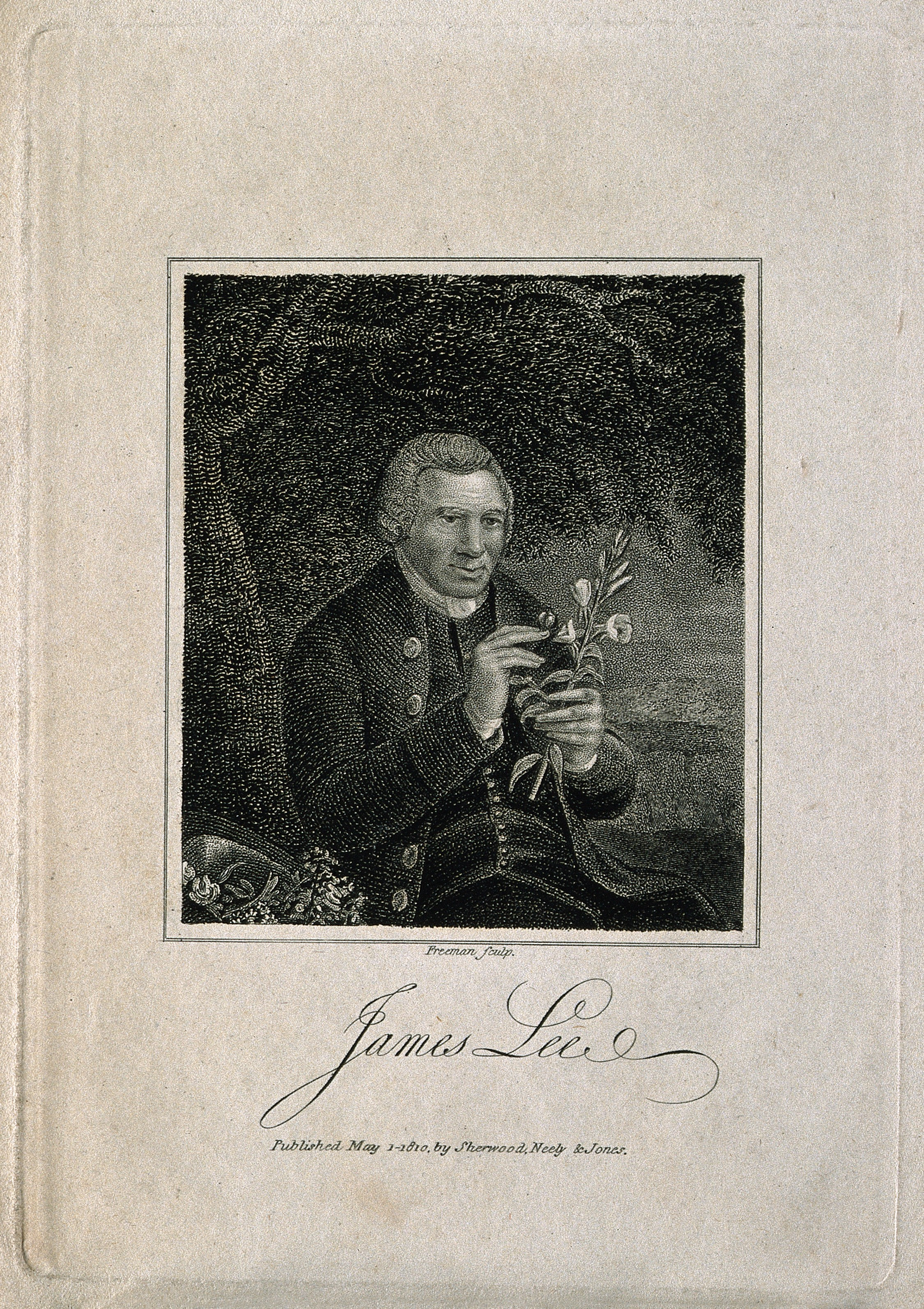 James Lee. Stipple engraving by S. Freeman, 1810. Scottish-born botanist, biography. Iconographic Collections Keywords: portrait prints; James Lee; stipple prints